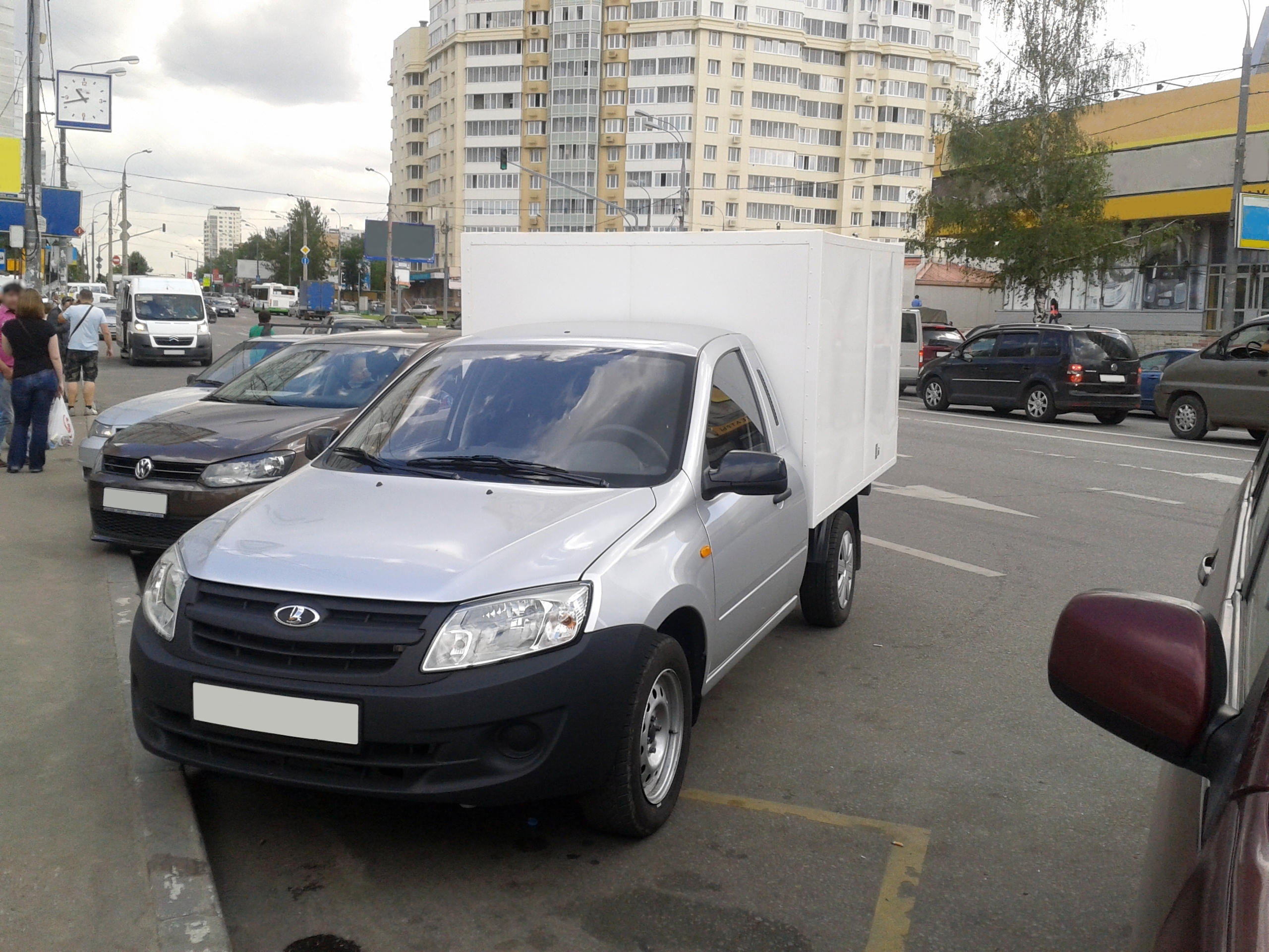 VIS-234900-40 (based on "Granta").